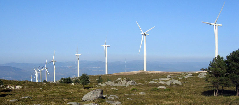 Windpark in Galicia, Spain.